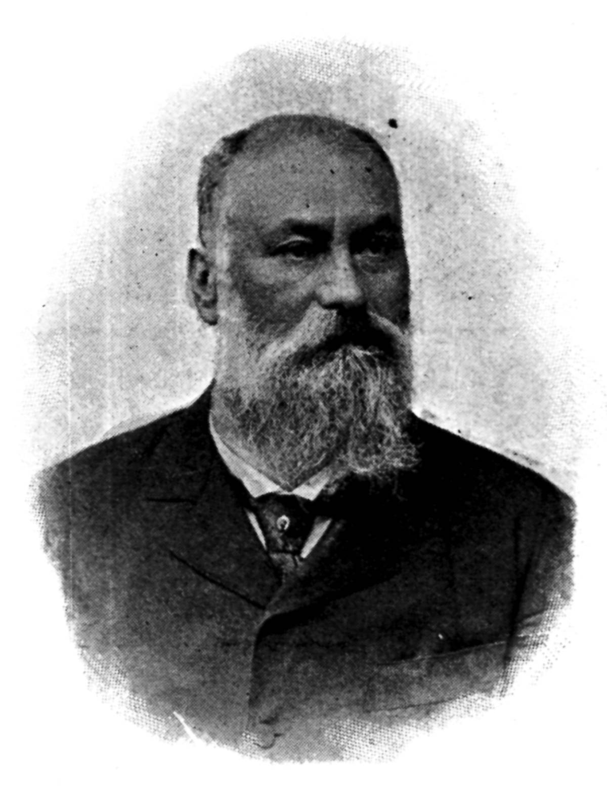 Siegmund Exner